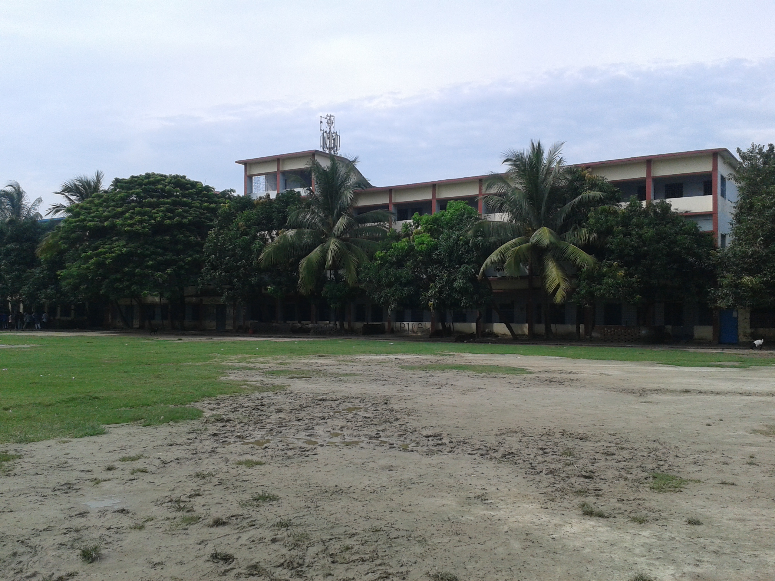 Naogaon Zilla School Main Building